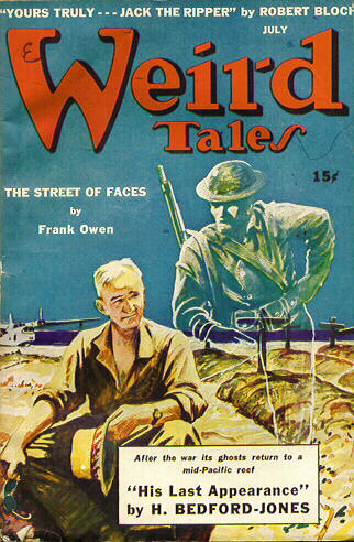 Cover of the pulp magazine Weird Tales (July 1943, vol. 36, no. 12) featuring His Last Appearance by H. Bedford-Jones. Cover art by E. Franklin Wittmack.